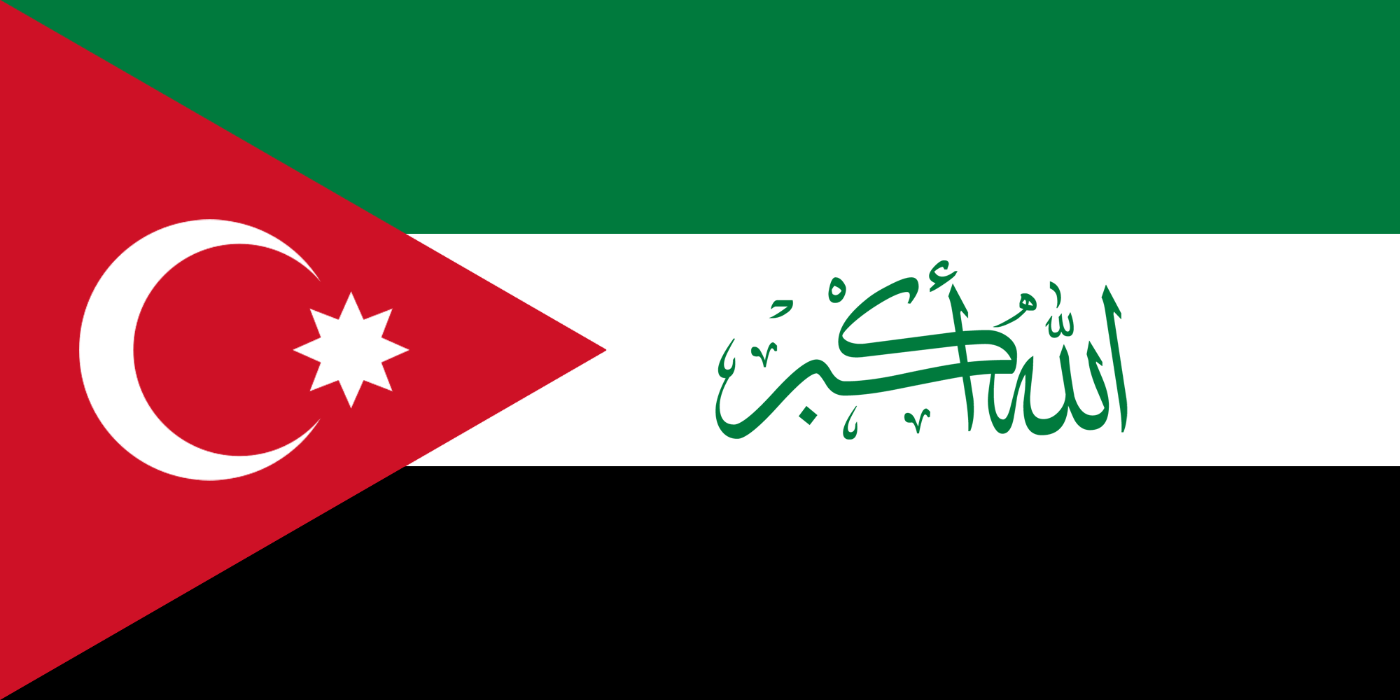 Flag of Al-Ahwaz